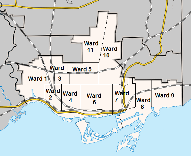 Map of Toronto